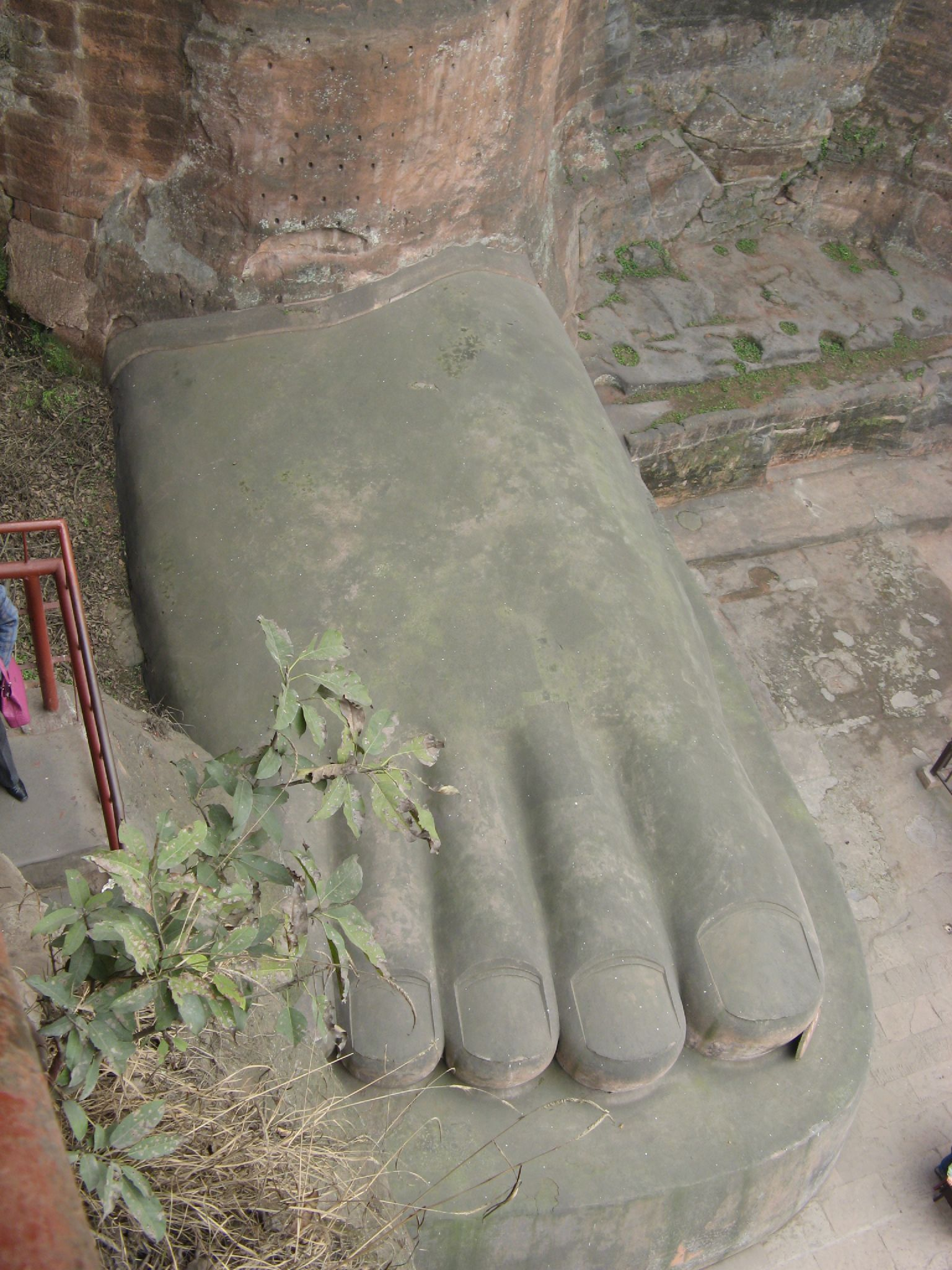 Foot of Leshan Giant Buddha.